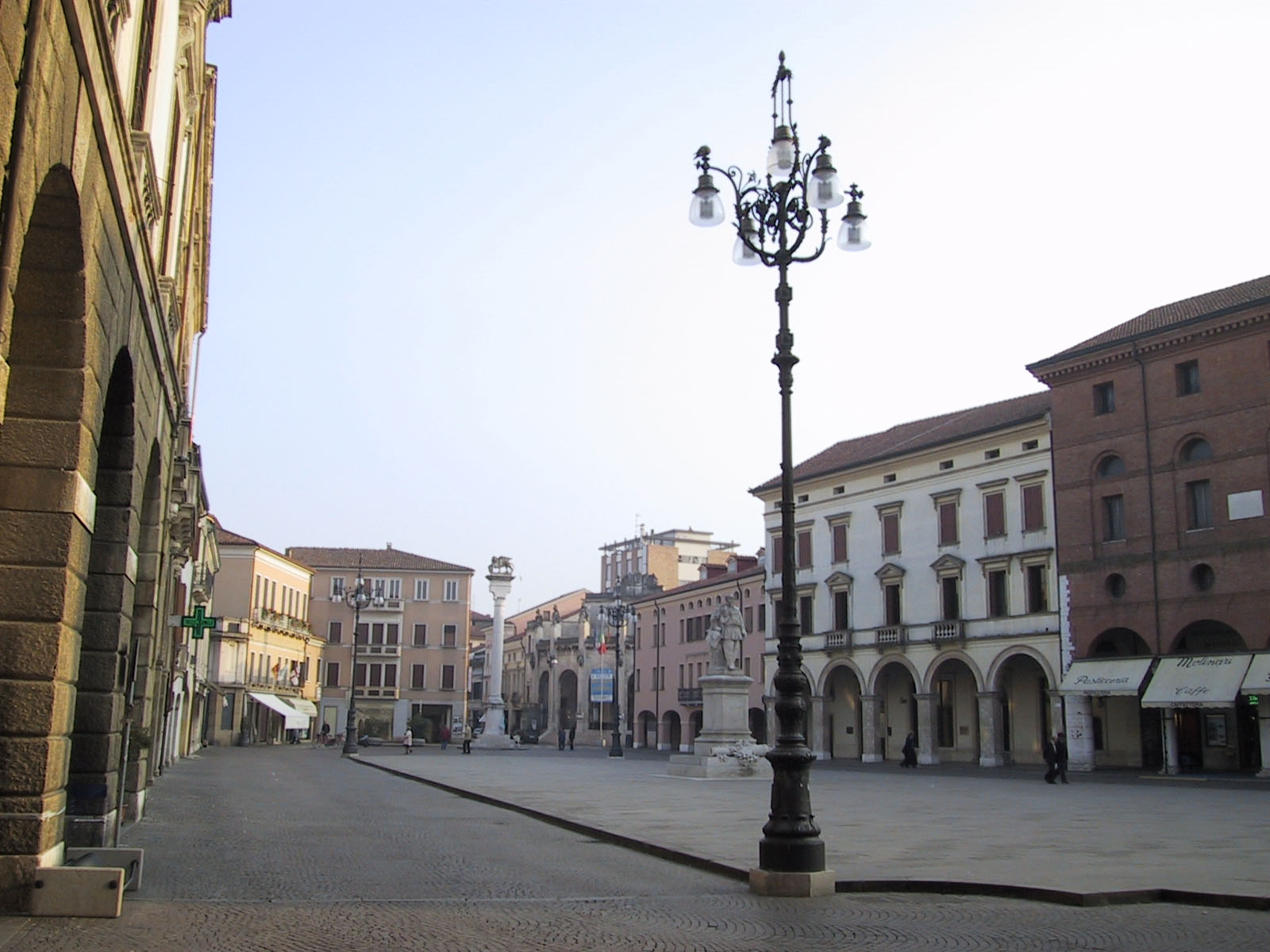 Piazza Vittorio Emanuele II in Rovigo, a city in Venetia, Italy.